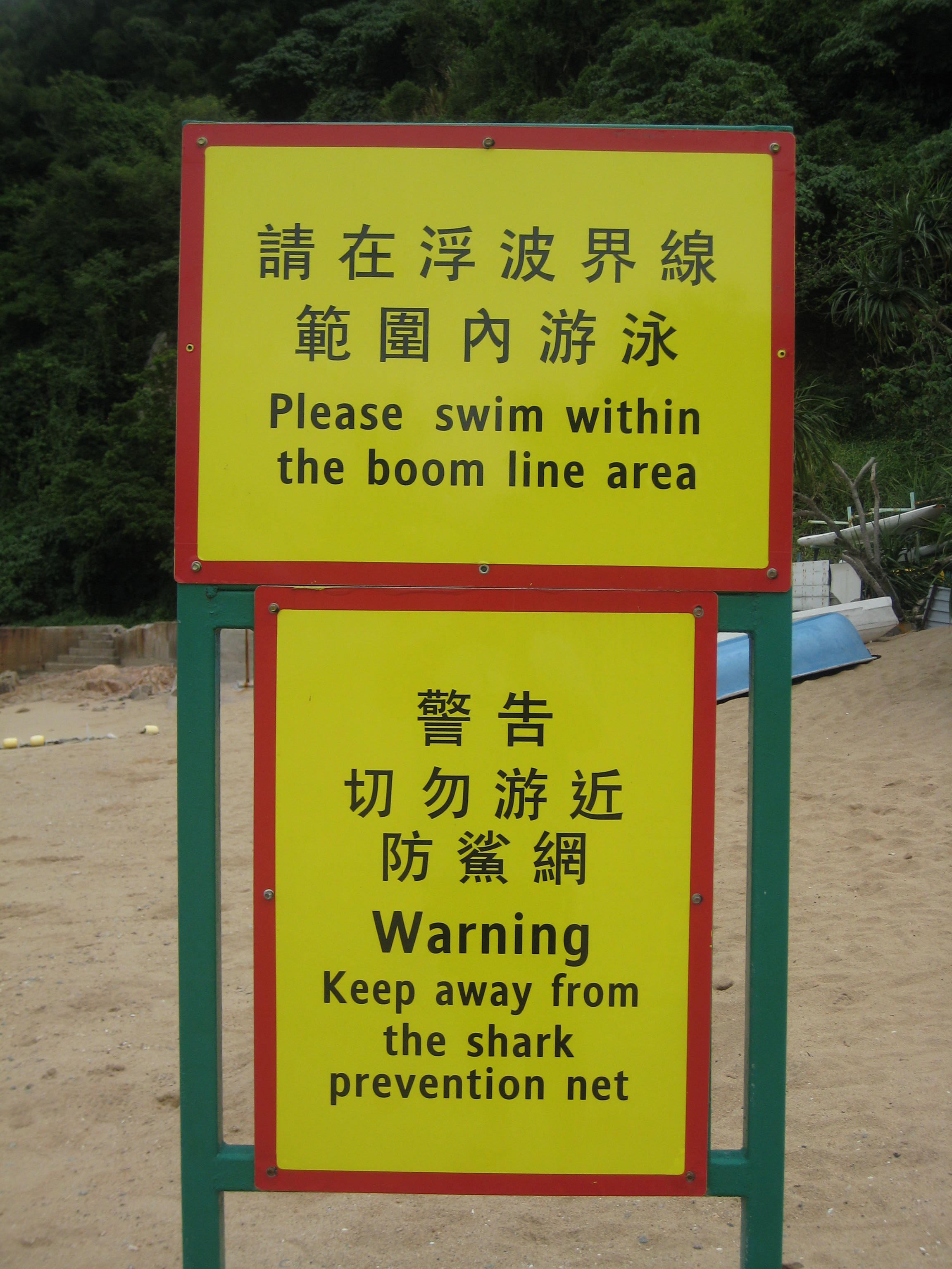 Dual language sign for shark prevention on the Kwun Yam Wan beach in Hong-Kong